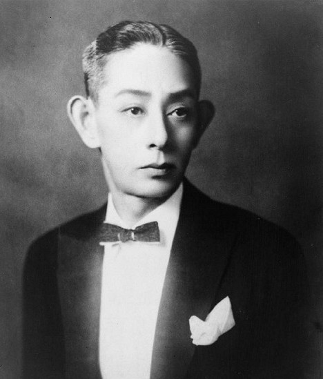 Uzaemon Ichimura XV (1874–1945)